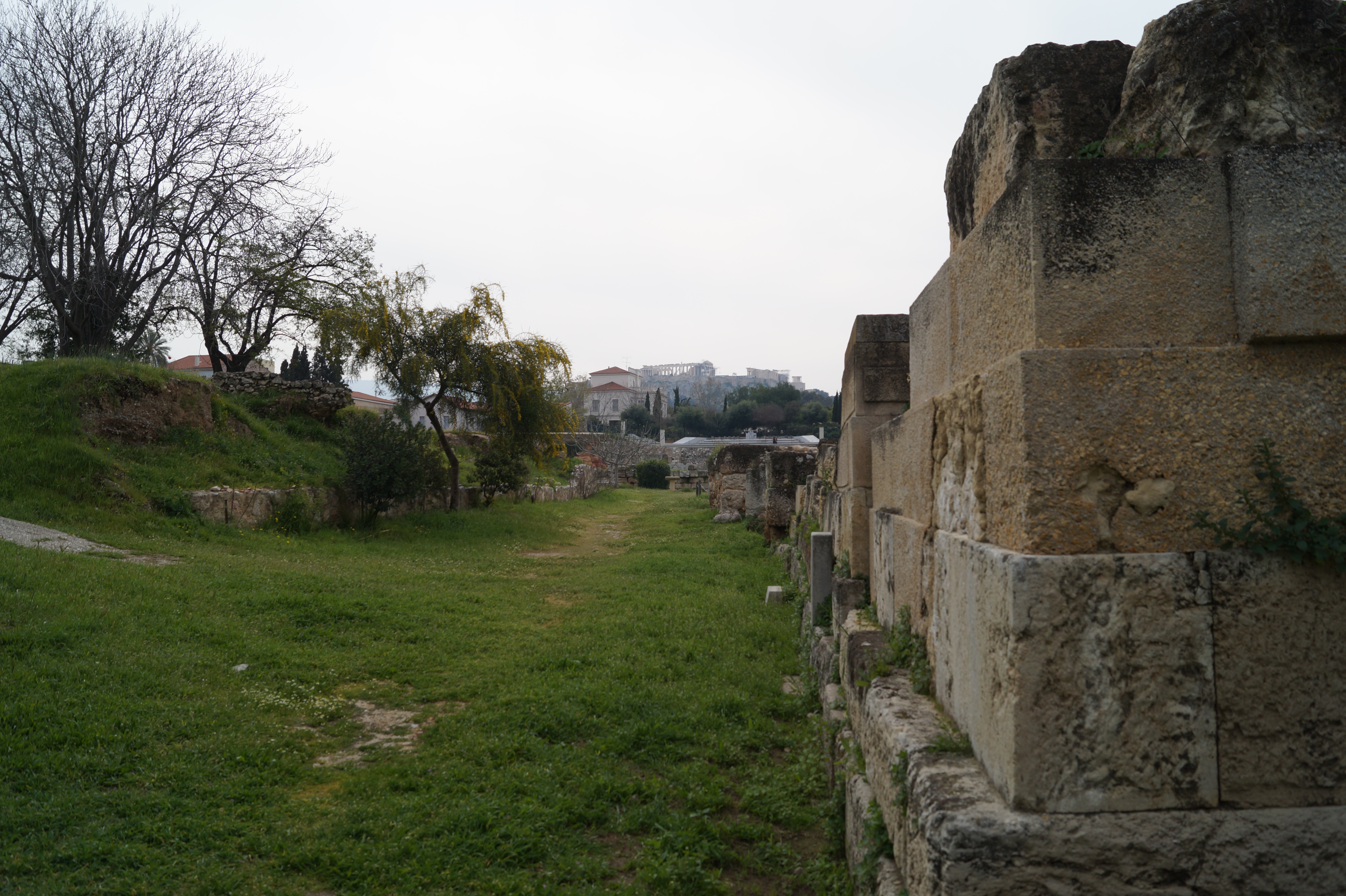 Kerameikos, Athens, Greece: North-east wall of the Tomb of the Lacedaemonians.